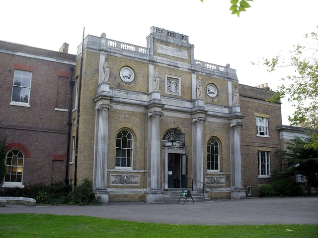 Pitzhanger Manor House, Ealing, W5 Pitzhanger Manor House, was designed by the architect John Soane in 1800. Following its completion in 1804, Soanes used Pitzhanger it as a weekend retreat and a place of entertainment. The grounds to the west of the house are now Walpole Park.